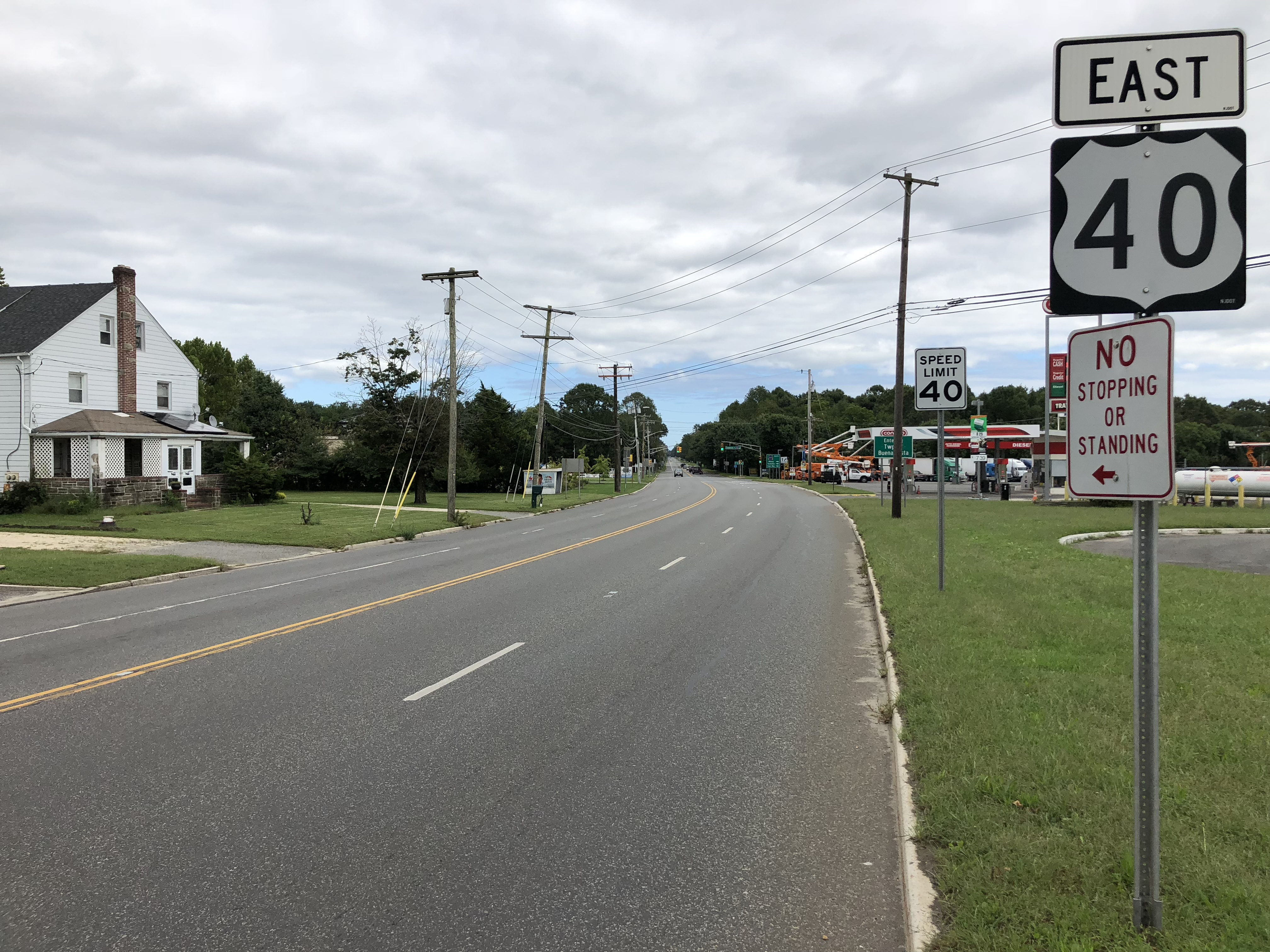 View east on U.S. Route 40/south on Atlantic County Route 557 (Harding Highway) at New Jersey State Route 54 (Blue Anchor Road)/Atlantic County Route 619 (Wheat Road) in Buena Vista Township, Atlantic County, New Jersey